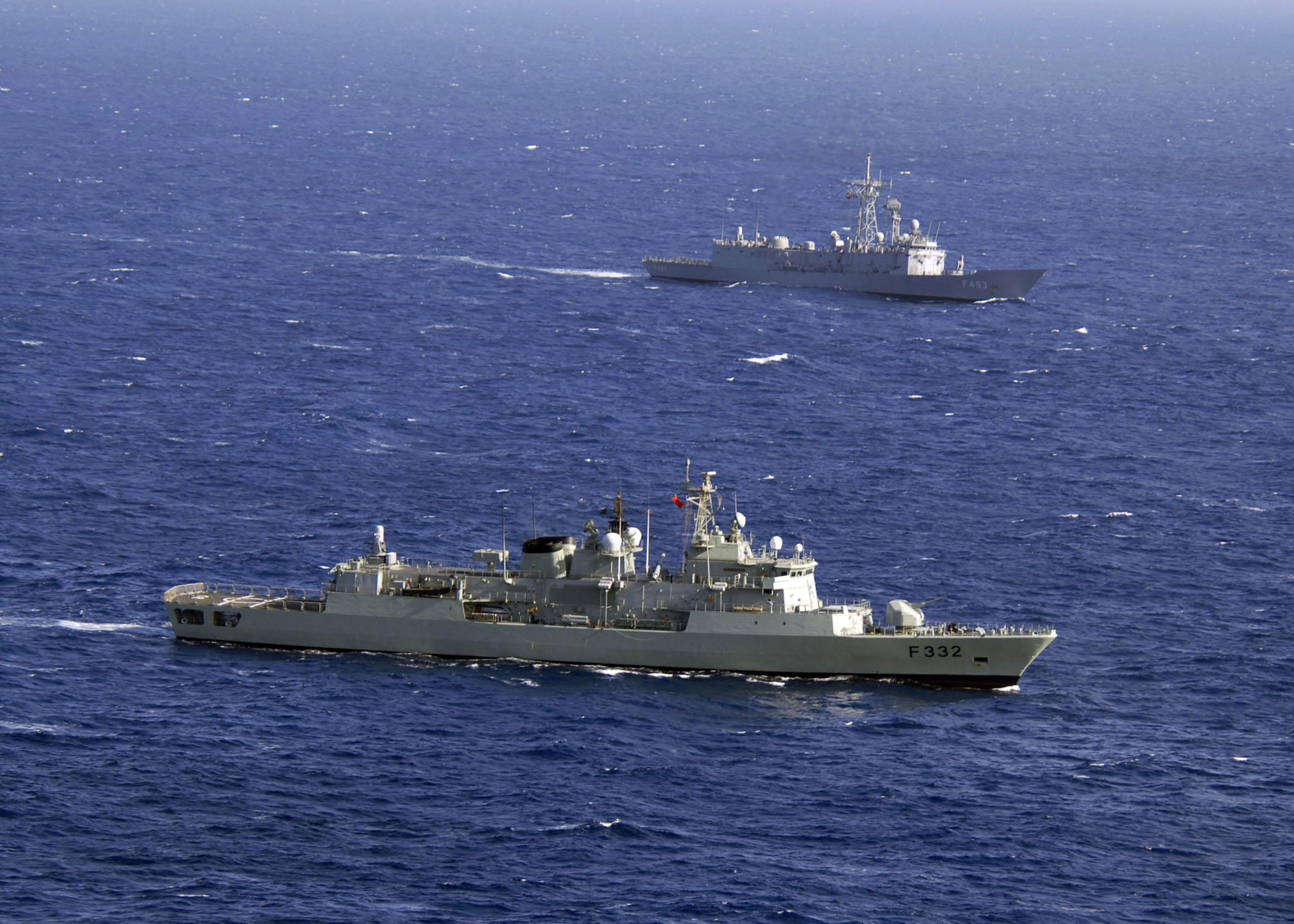 Portuguese frigate NRP Corte Real (F332) and Turkish frigate TCG Gelibolu (F493), transit the Mediterranean Sea during Phoenix Express (PE 08).